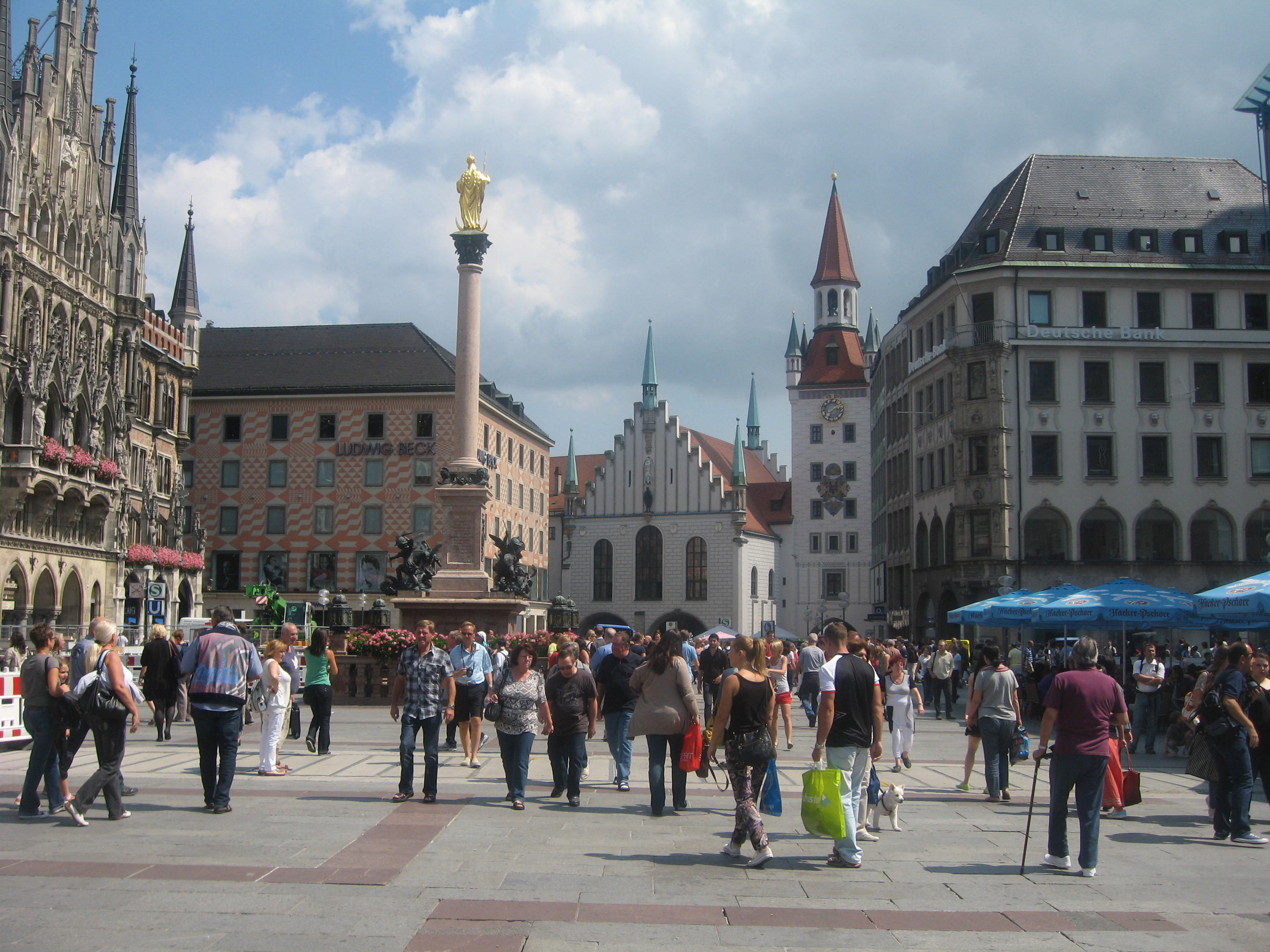 Marienplatz Munchen